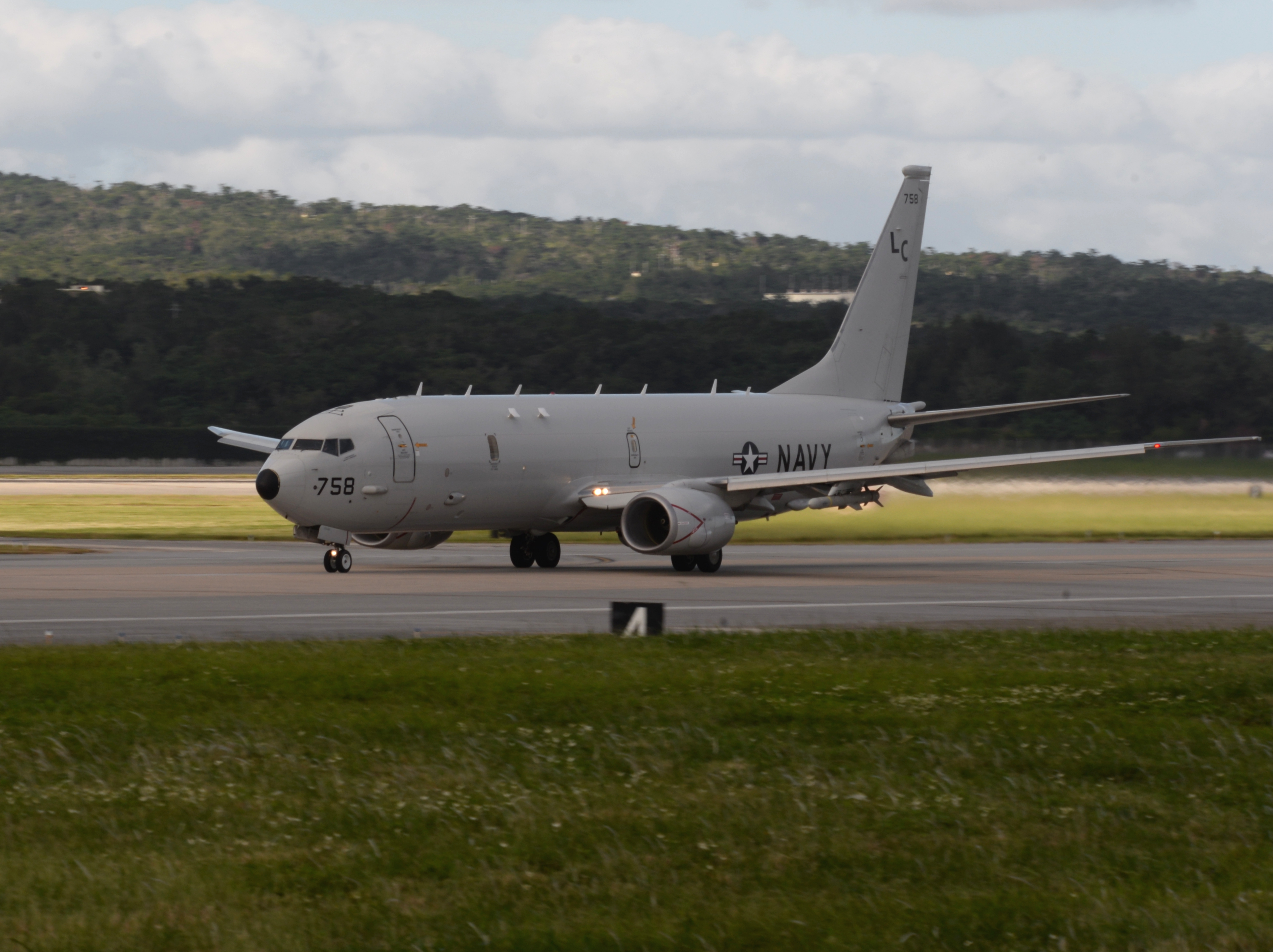 A U.S. Navy Boeing P-8A Poseidon (BuNo 168758) assigned to Patrol Squadron 8 (VP-8) "Fighting Tigers" takes off from a runway at Kadena Air Base, Japan. VP-8 was deployed to the 7th Fleet area of operations conducting missions and providing "Maritime Domain Awareness" to supported units throughout the Indo-Asia-Pacific region.